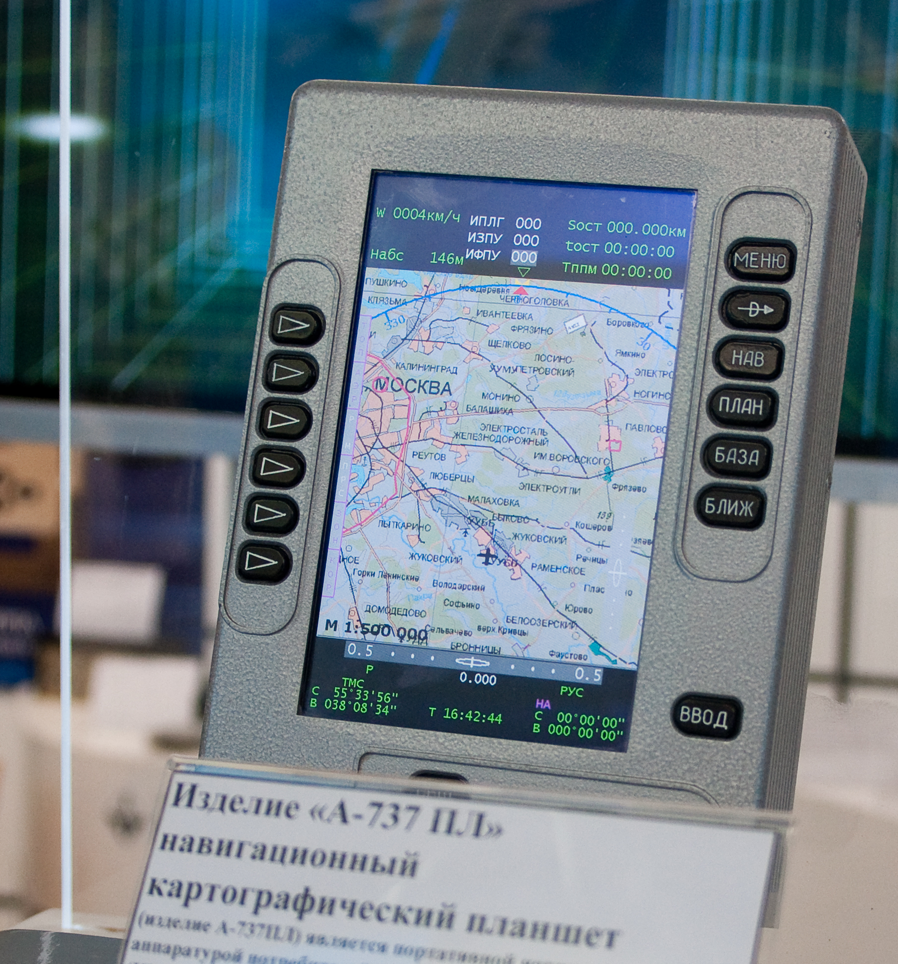 GLONASS/NAVSTAR cartographic plane table A-737 PL.